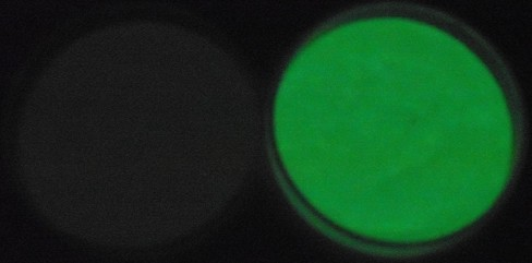 Phosphorescent pigments in the dark 4 min later